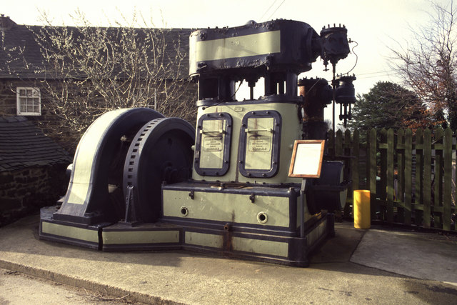 Steam engine at Crich Tramway Museum Belliss & Morcom, Birmingham compound steam engine with tramway generator. Preserved in the open air and can be seen from the public road.